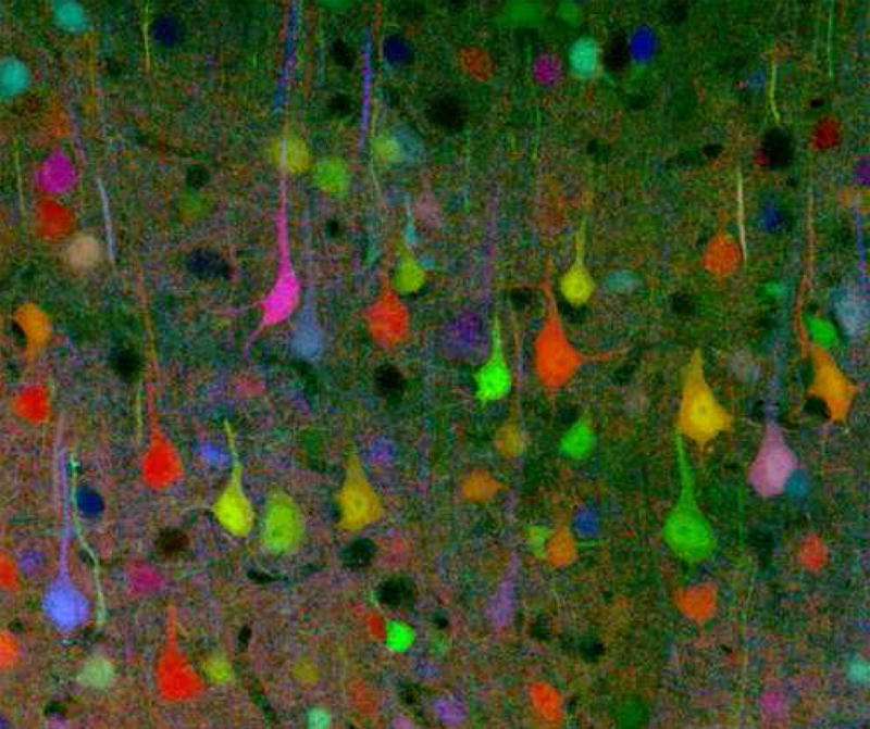 Mouse neurons labeled with fluorescent tags. Such “color coded” brain cells promise new solutions to formerly intractable problems with resolving closely packed neurons and tracing their axons and dendrites reliably over long distances. It seems unlikely that neural information processing will ever be understood without solving such problems and reconstructing circuits in far more detail that presently possible.